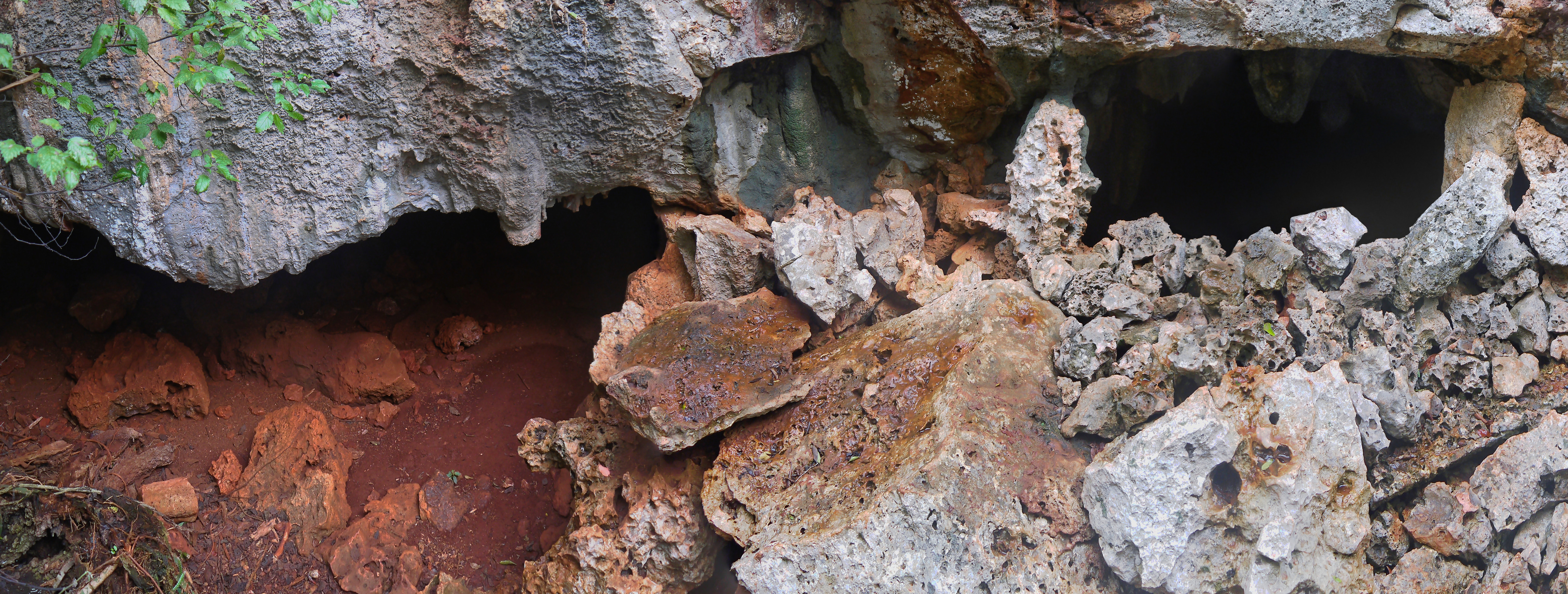 Entrance to the Cave of Petroglyphs.